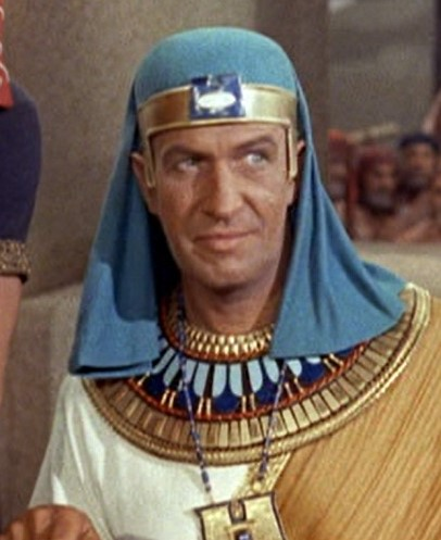 Cropped screenshot of Vincent Price from the trailer for the film The Ten Commandments.